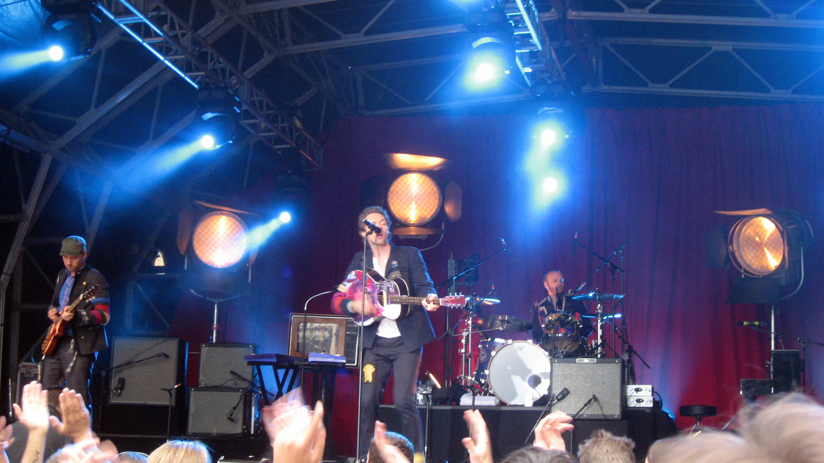 They were all on top form